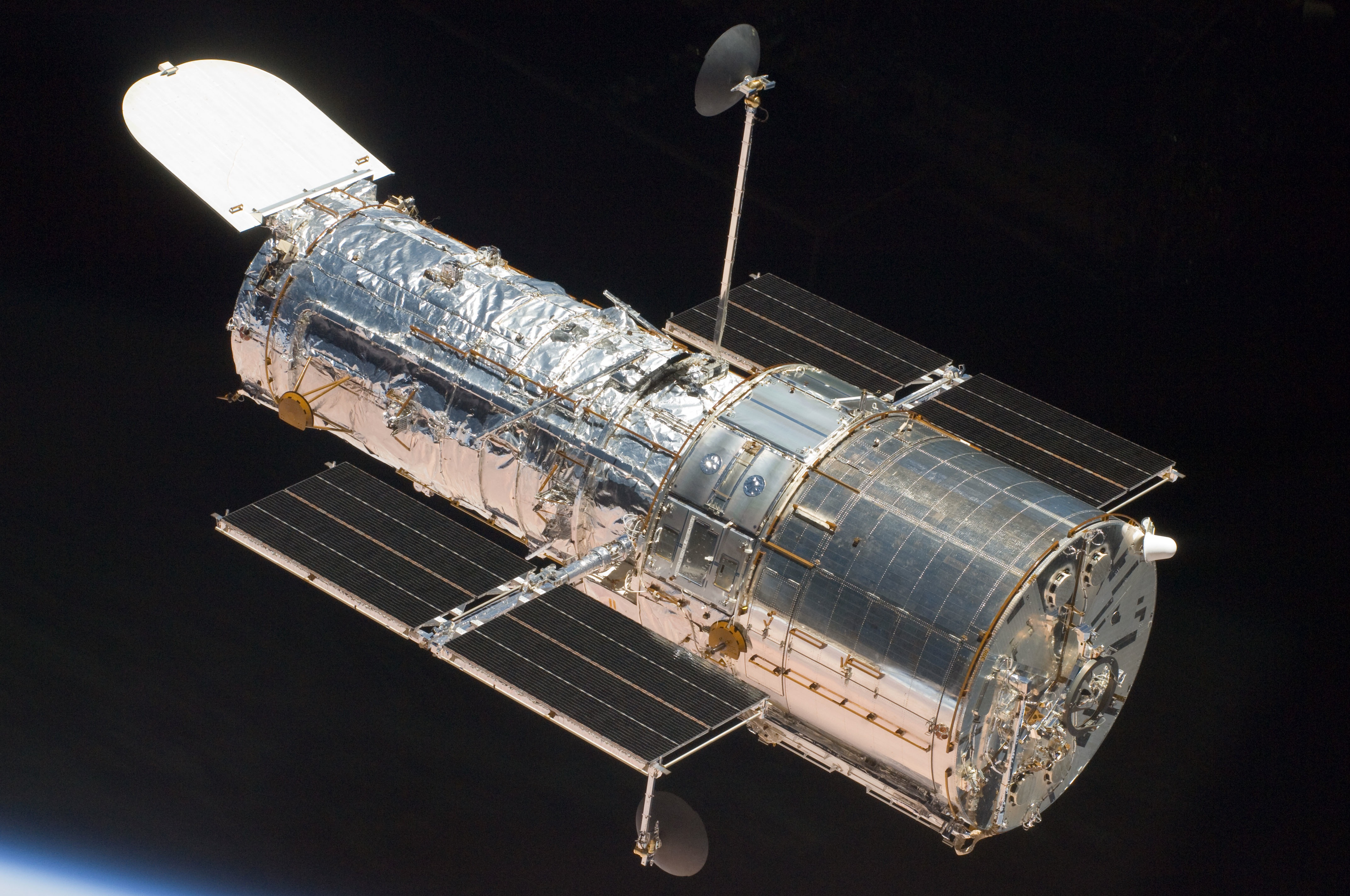 An STS-125 crewmember aboard the Space Shuttle Atlantis captured this still image of the Hubble Space Telescope as the two spacecraft continue their relative separation on May 19, after having been linked together for the better part of a week.